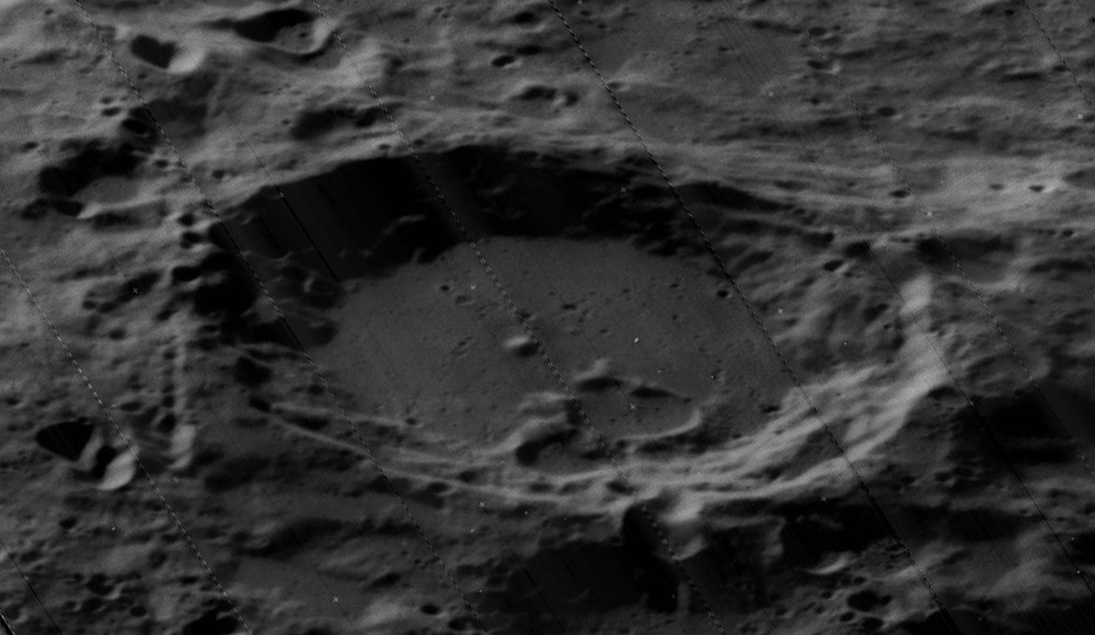 Oblique view of Kibal'chich, on the far side of the moon, facing west. Dark diagonal lines are artifacts of reprocessing.